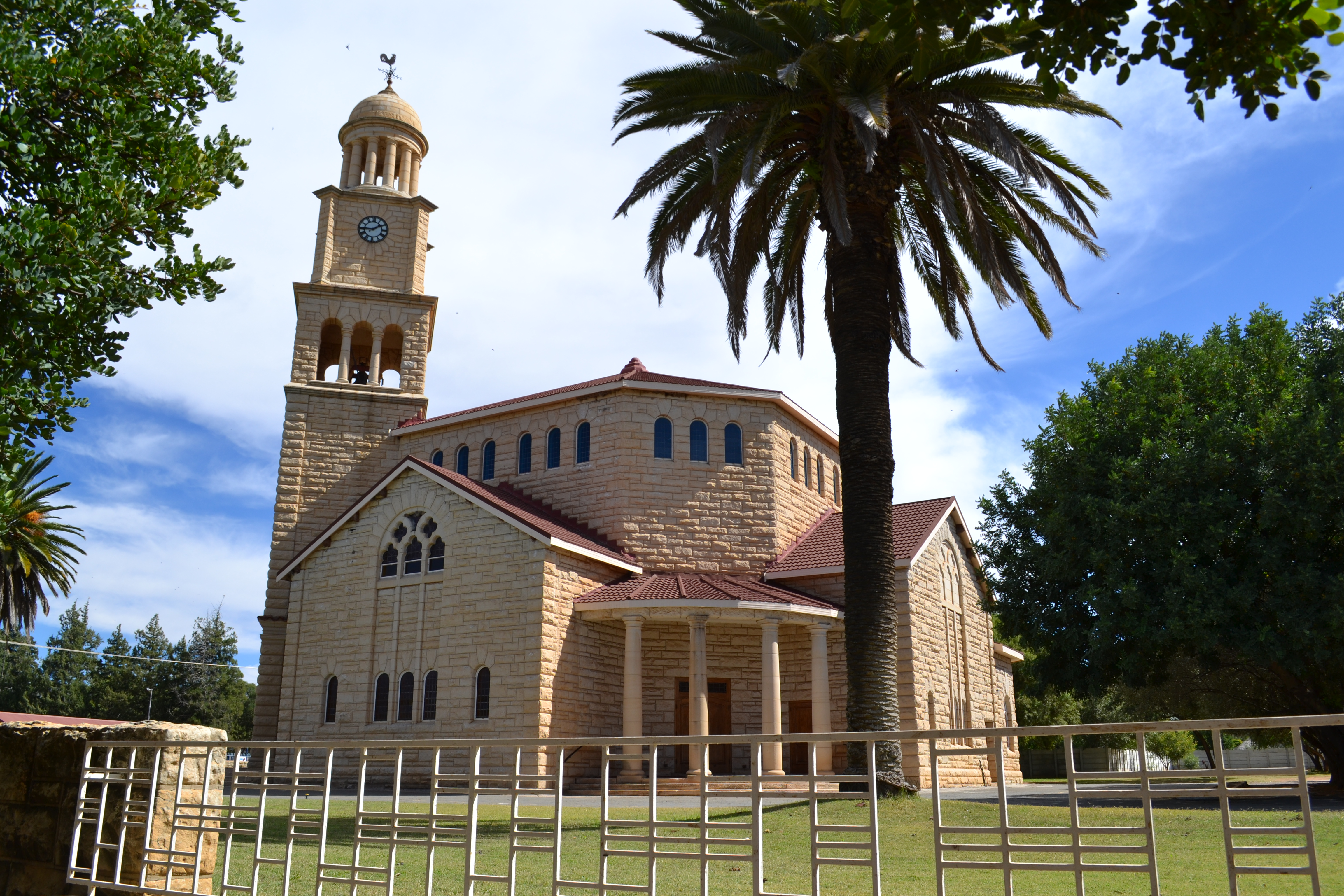 Dutch Reformed Church Wolmaransstad North West South Africa This media shows a South African Protected Site with SAHRA file reference New.